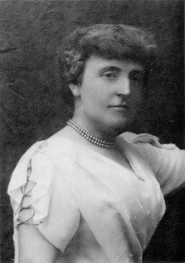 Frances Burnett, part of a photograph by Herbert Rose Barraud (1845-1896).